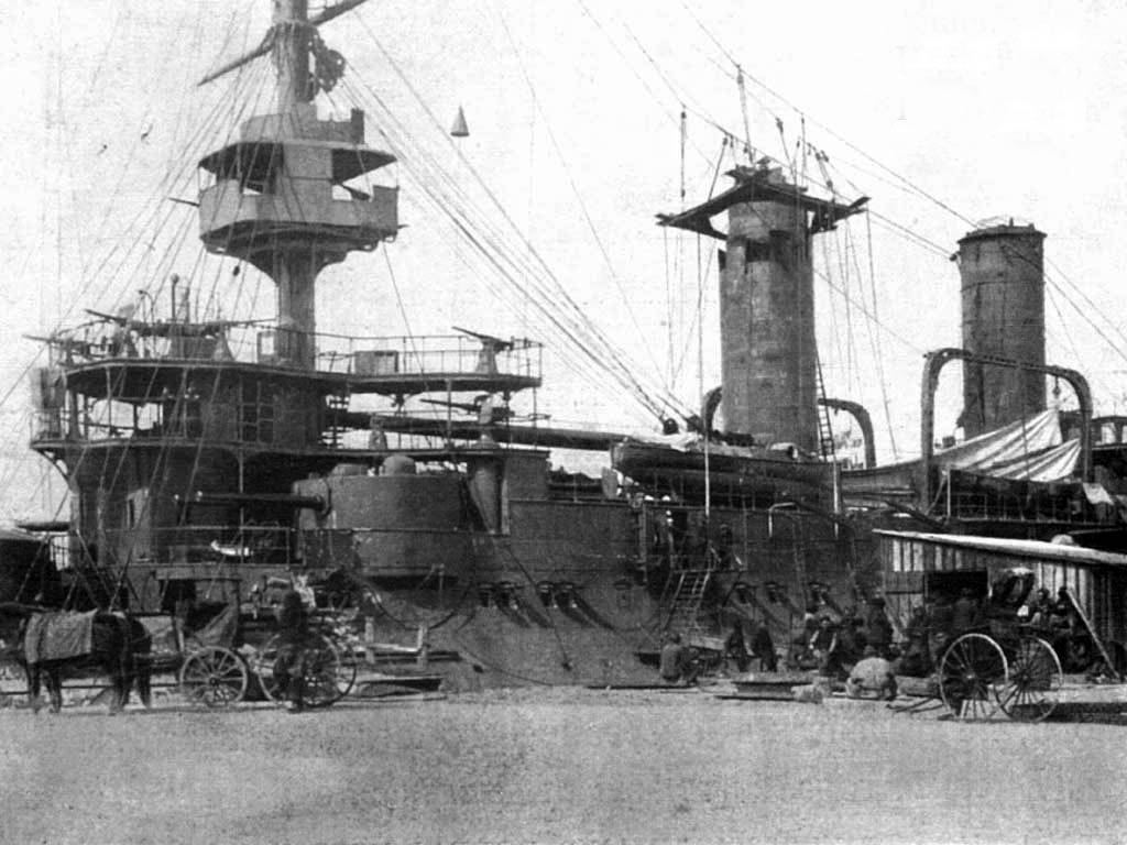 Imperial Russian battleship Tsesarevich in Qingdao, summer 1904.